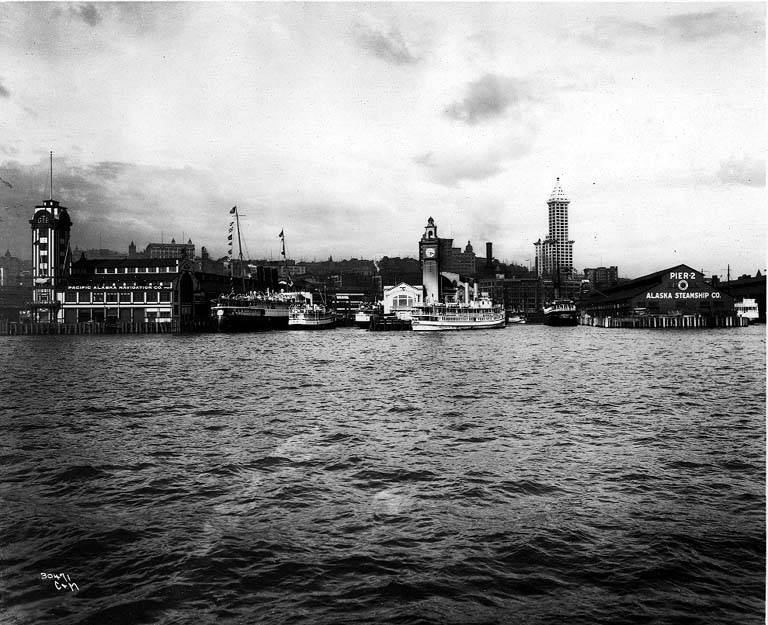 Grand trunk Pacific Dock, Colman Dock, L. C. Smith Building, and Alaska Steamship Co. at Pier 2, foot of Yesler Way. Subjects (LCTGM): Bays (Bodies of water)--Washington (State)--Seattle; Waterfronts--Washington (State)--Seattle; Piers & wharves--Washington (State)--Seattle; Ships--Washington (State)--Seattle Subjects (LCSH): Elliott Bay (Wash.) ; Alaska Steamship Co. ; Smith Tower (Seattle, Wash.)